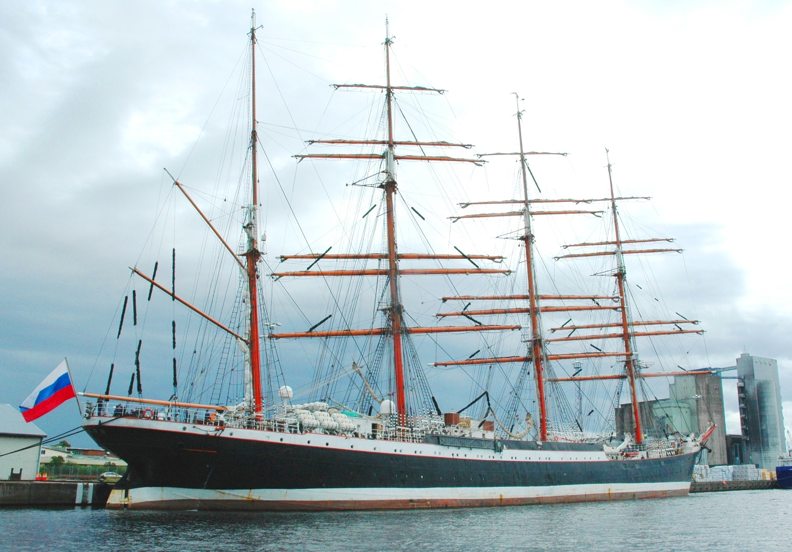 The worlds most majestic vessel - russian Sedov, visit Halmstad at the Halmstad Marinfestival 2008.